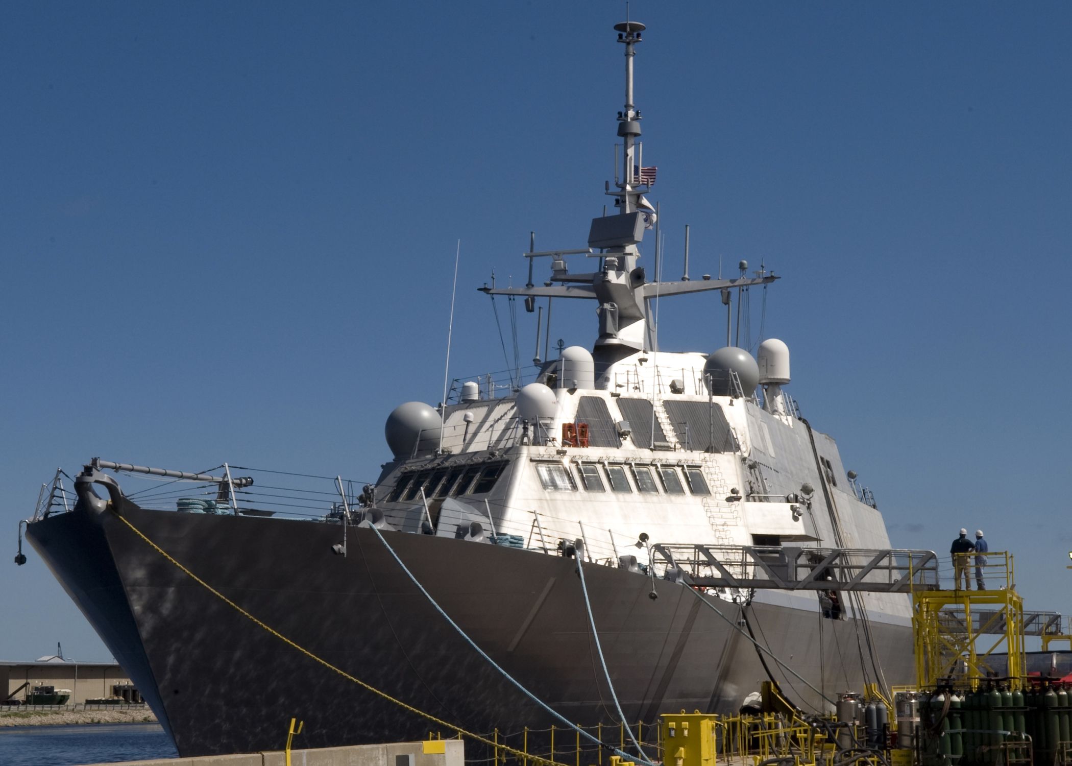 080819-N-7090S-041 MARINETTE, Wis. The littoral combat ship USS Freedom (LCS 1), the first ship in the Navy's new Littoral Combat Ship class, prepares to go to sea to begin acceptance trials, conducted by the Navy's Board of Inspection and Survey team, in Lake Michigan. Freedom is a fast, agile, focused-mission ship designed to defeat threats such as mines, quiet diesel submarines and fast surface craft. Freedom is scheduled to be delivered later this year and will be homeported in San Diego, Calif.